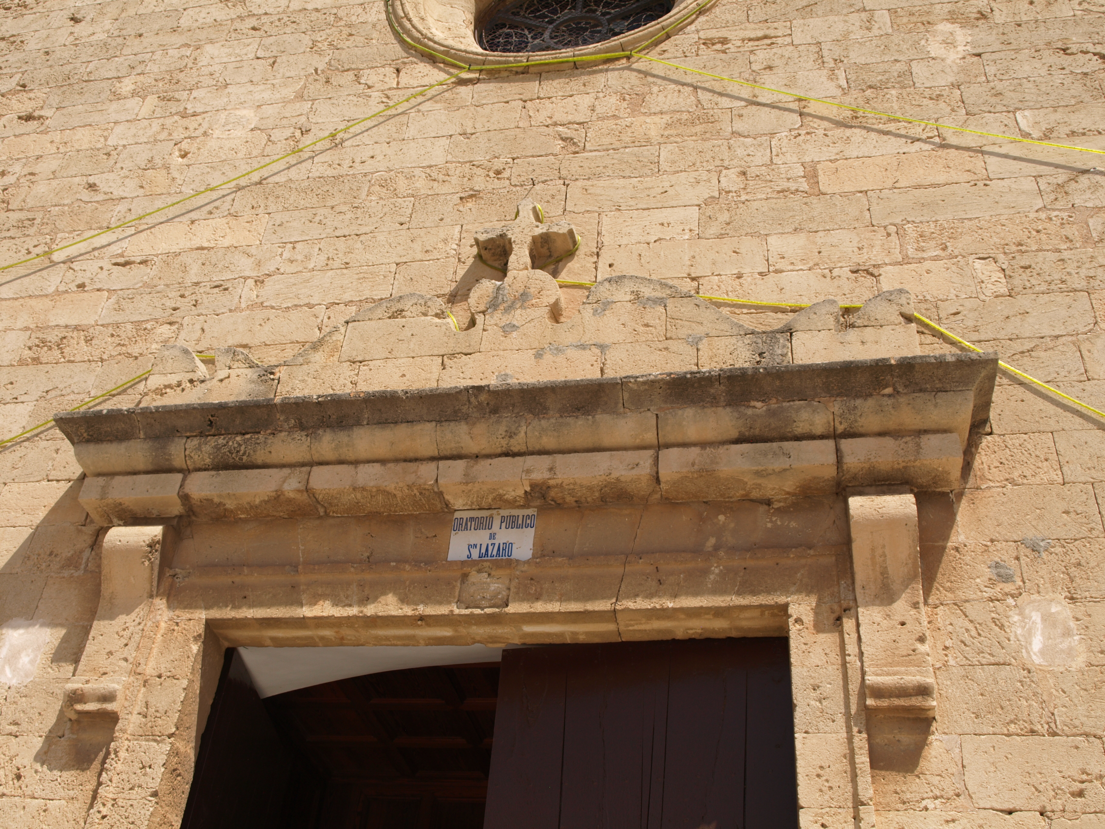 Pla de Na Tesa Mallorca Parish Church front door.